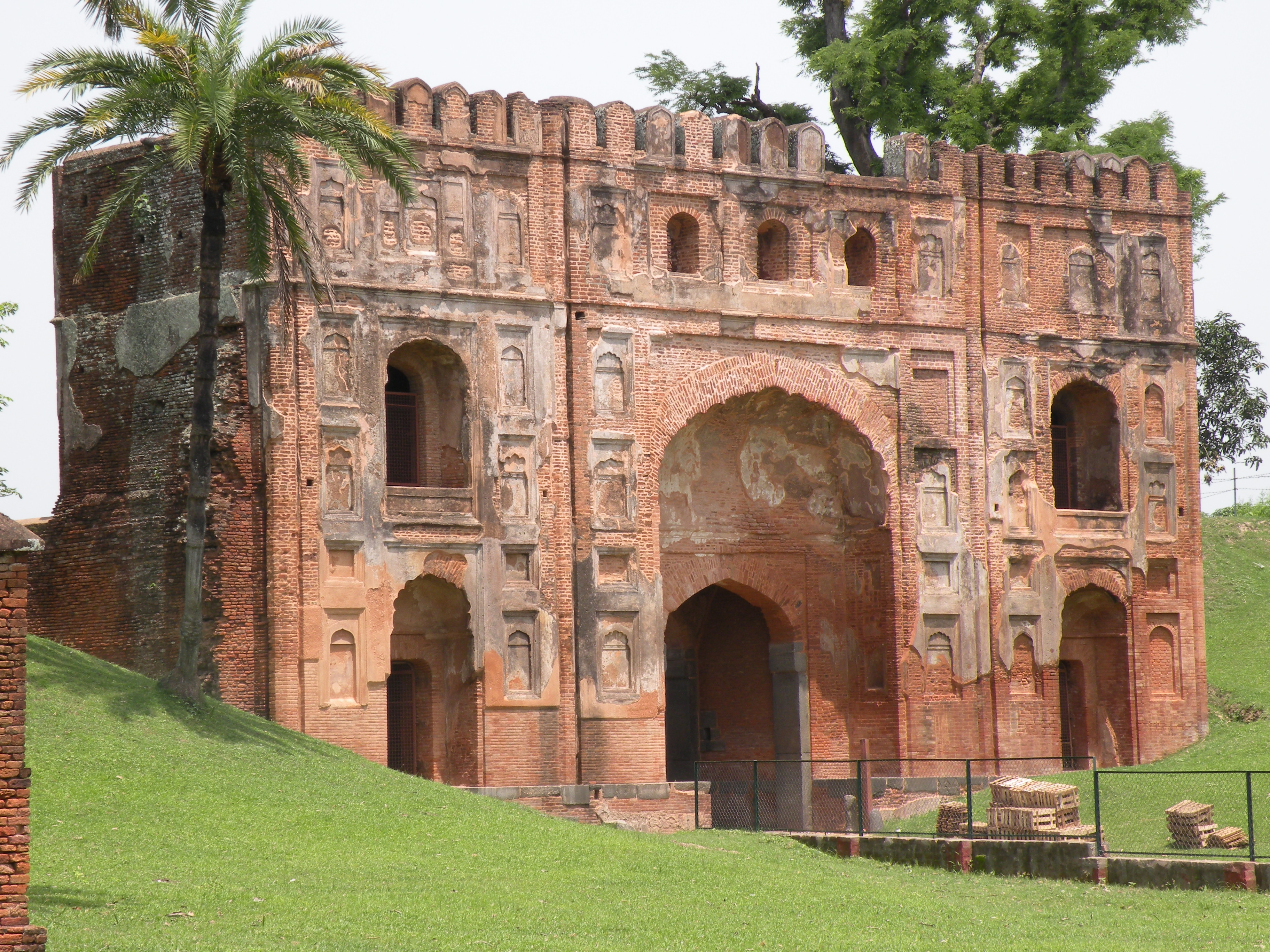 Lukachuri Gateway It was sais that the gate was used for the entry to the kingdom of Gaur and few other entry gates could be traced to enter into Gaur.